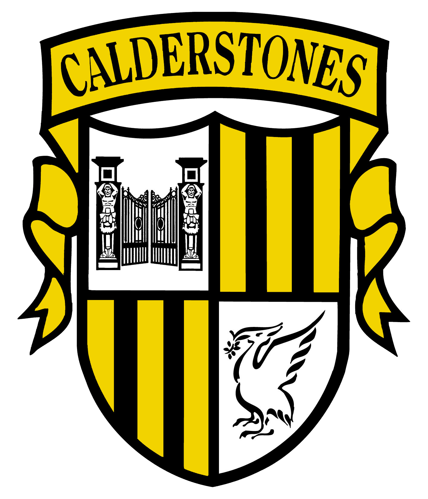 An updated version of the school badge.